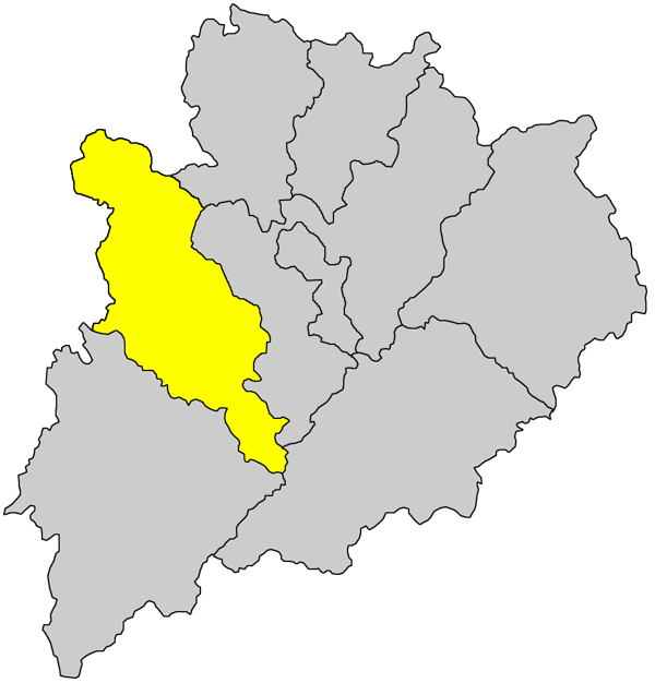 Location of Xingning City, Meizhou